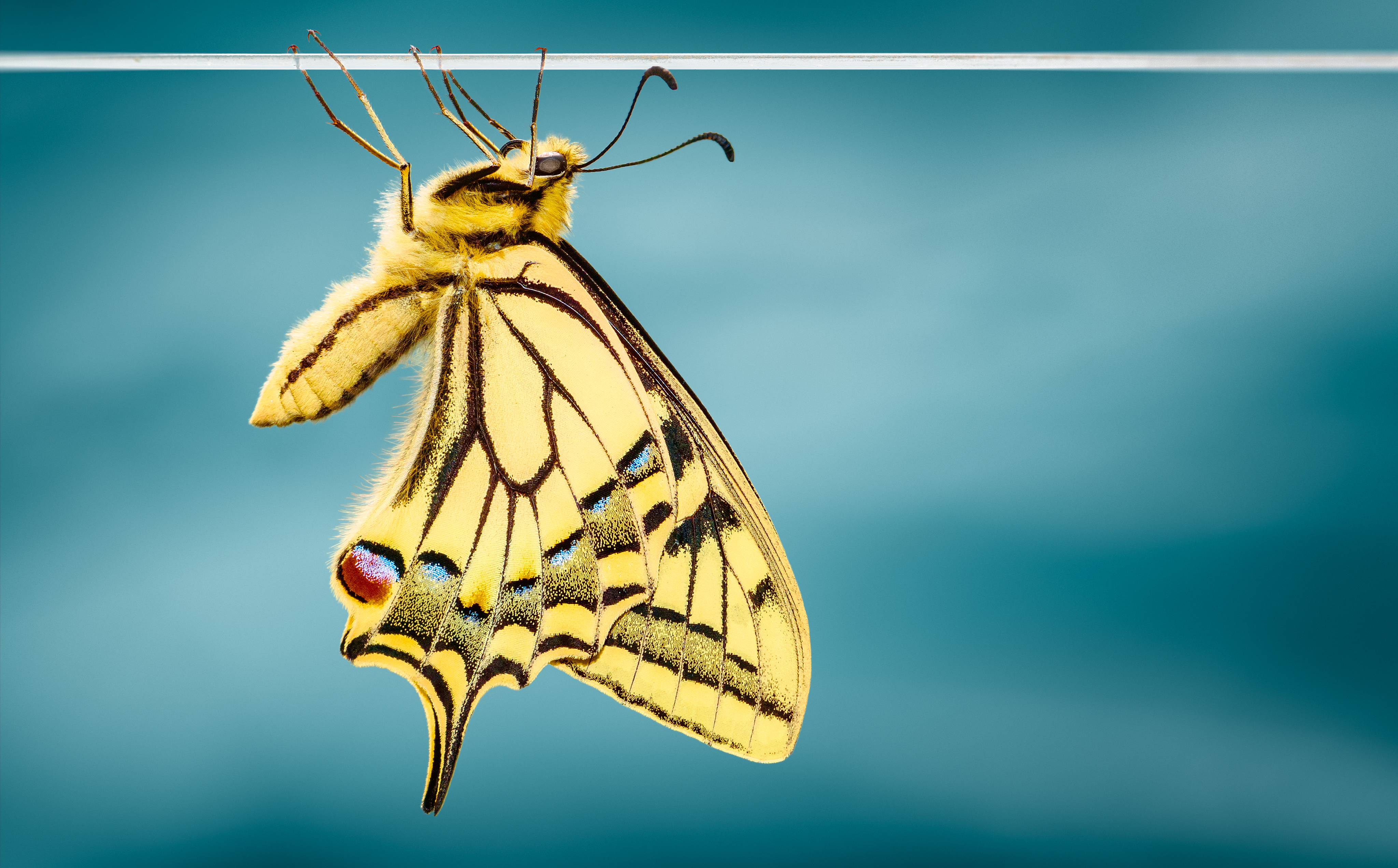 The Old World Swallowtail (Papilio machaon), is a butterfly of the family Papilionidae. The butterfly is also known as the Common Yellow Swallowtail or, simply, The Swallowtail (a common name applied to all members of the family). It is the type species of the genus Papilio and occurs throughout the Palearctic region in Europe and Asia; it also occurs across North America, and thus is not restricted to the Old World, despite the common name.